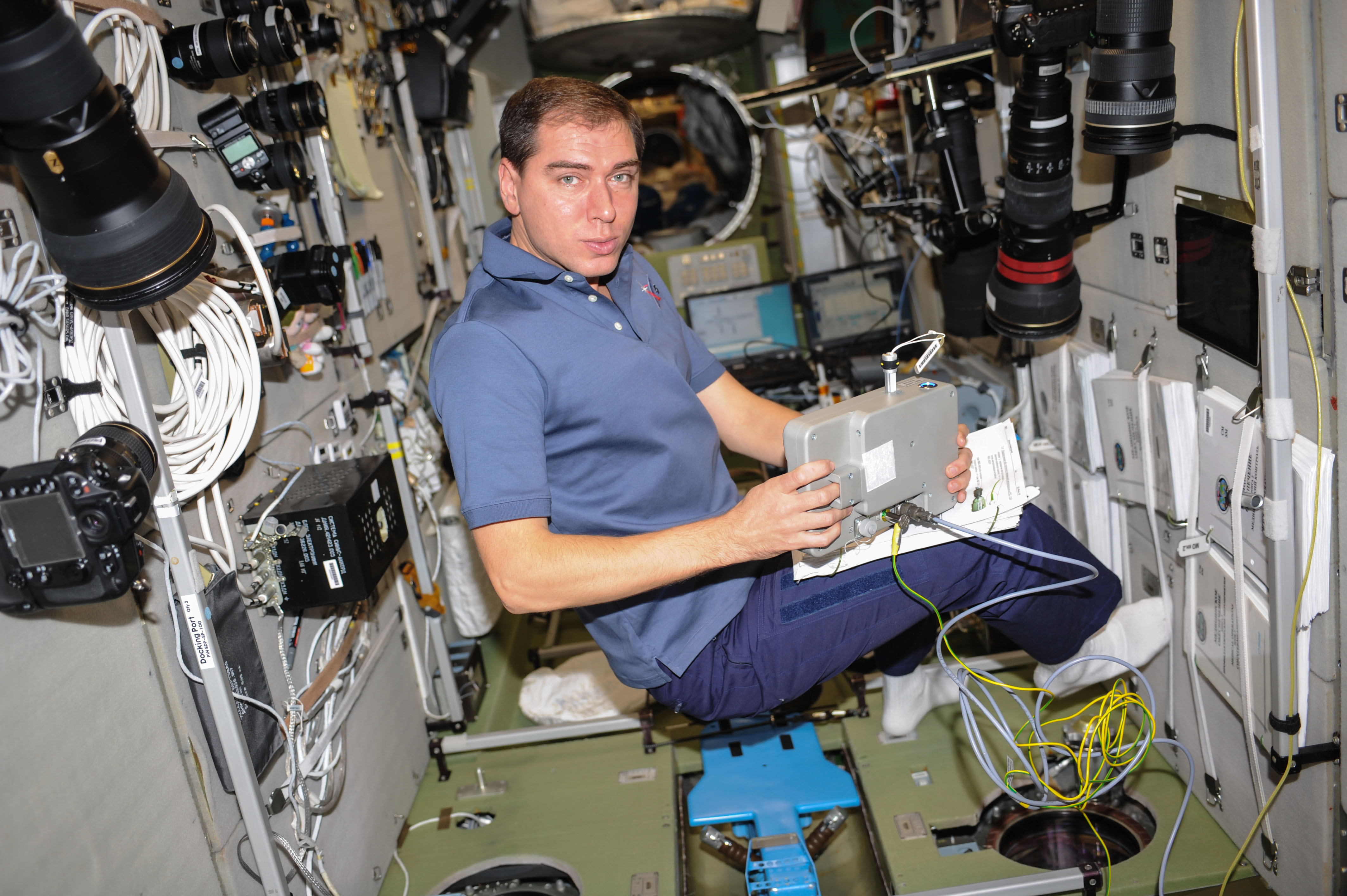 Russian cosmonaut Sergey Volkov works inside of the Russian segment of the International Space Station. Volkov is on his third long duration mission aboard the orbiting laboratory.